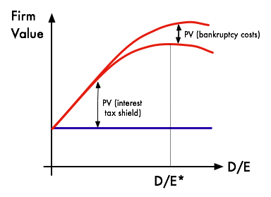 Trade Off theory diagram